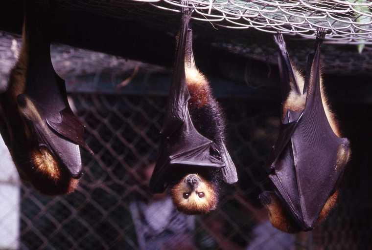 Pteropus niger at La Vanille Crocodile Farm, Mauritius